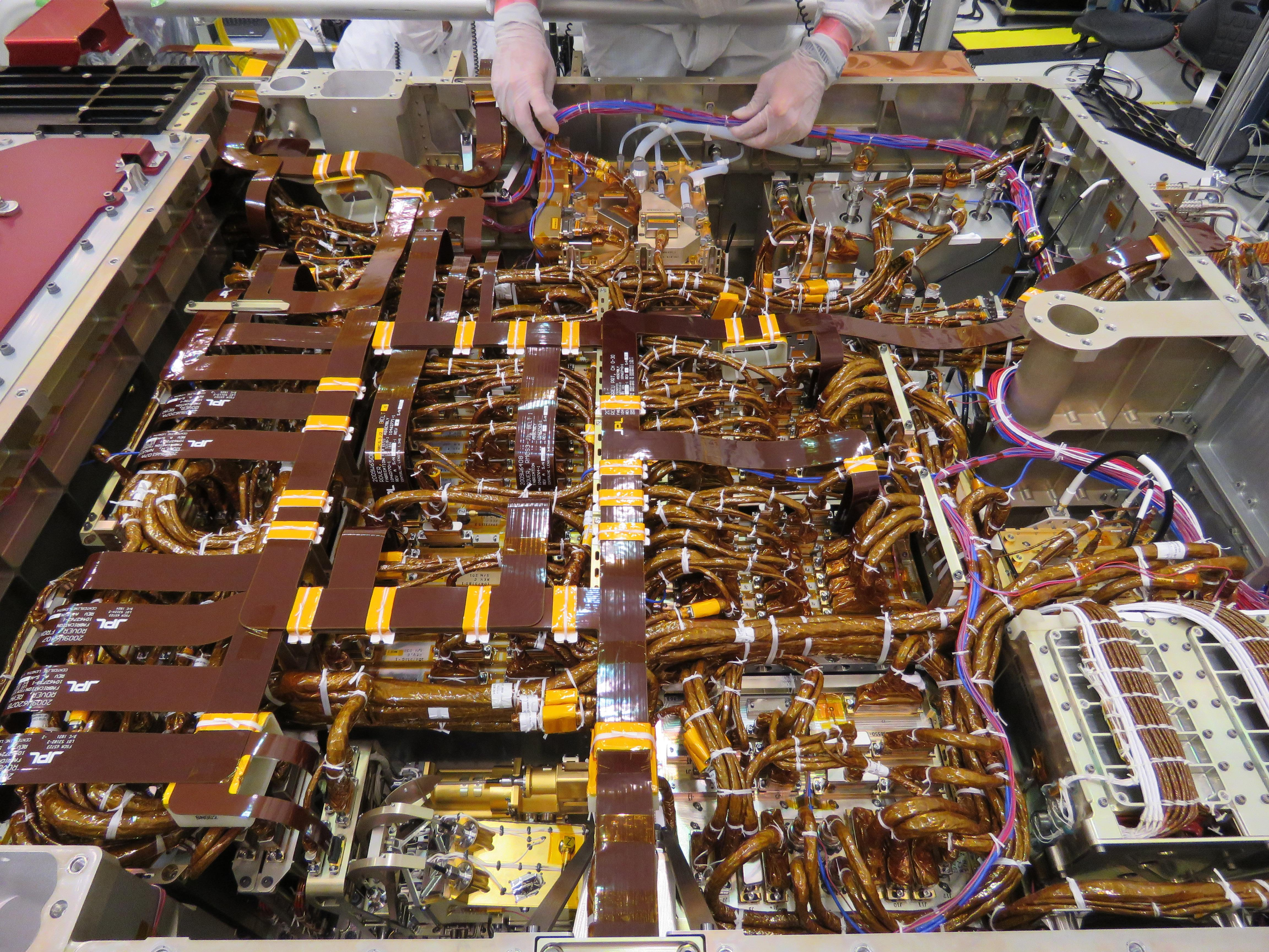 PIA23312: In the Belly of the Mars 2020 Beast In the image, taken on June 1, 2019, an engineer in the Spacecraft Assembly Facility's High Bay 1 at NASA's Jet Propulsion Laboratory in Pasadena, California, can be seen working on the exposed belly of the Mars 2020 rover. It has been inverted to allow the 2020 engineers and technicians easier access. The front of the rover is on camera left. The engineer is inspecting wiring directly above the Mars Oxygen In-Situ Resource Utilization Experiment (MOXIE) instrument. MOXIE will demonstrate a way that future explorers might produce oxygen from the Martian atmosphere for propellant and for breathing. In the foreground, just to the left of center and distinctive because of the relative lack of wiring, is the body unit for the SuperCam instrument. The mast unit for SuperCam instrument, which will provide imaging, chemical composition analysis, and mineralogy from its high perch at the top of the rover's remote sensing mast was installed June 25. To the far left, covered by a red-colored shield, is the bay where the Adaptive Caching Assembly (ACA) will document, analyze and process for storage samples of Mars rock and soil for future return to Earth. JPL is building and will manage operations of the Mars 2020 rover for the NASA Science Mission Directorate at the agency's headquarters in Washington. For more information about the mission, go to